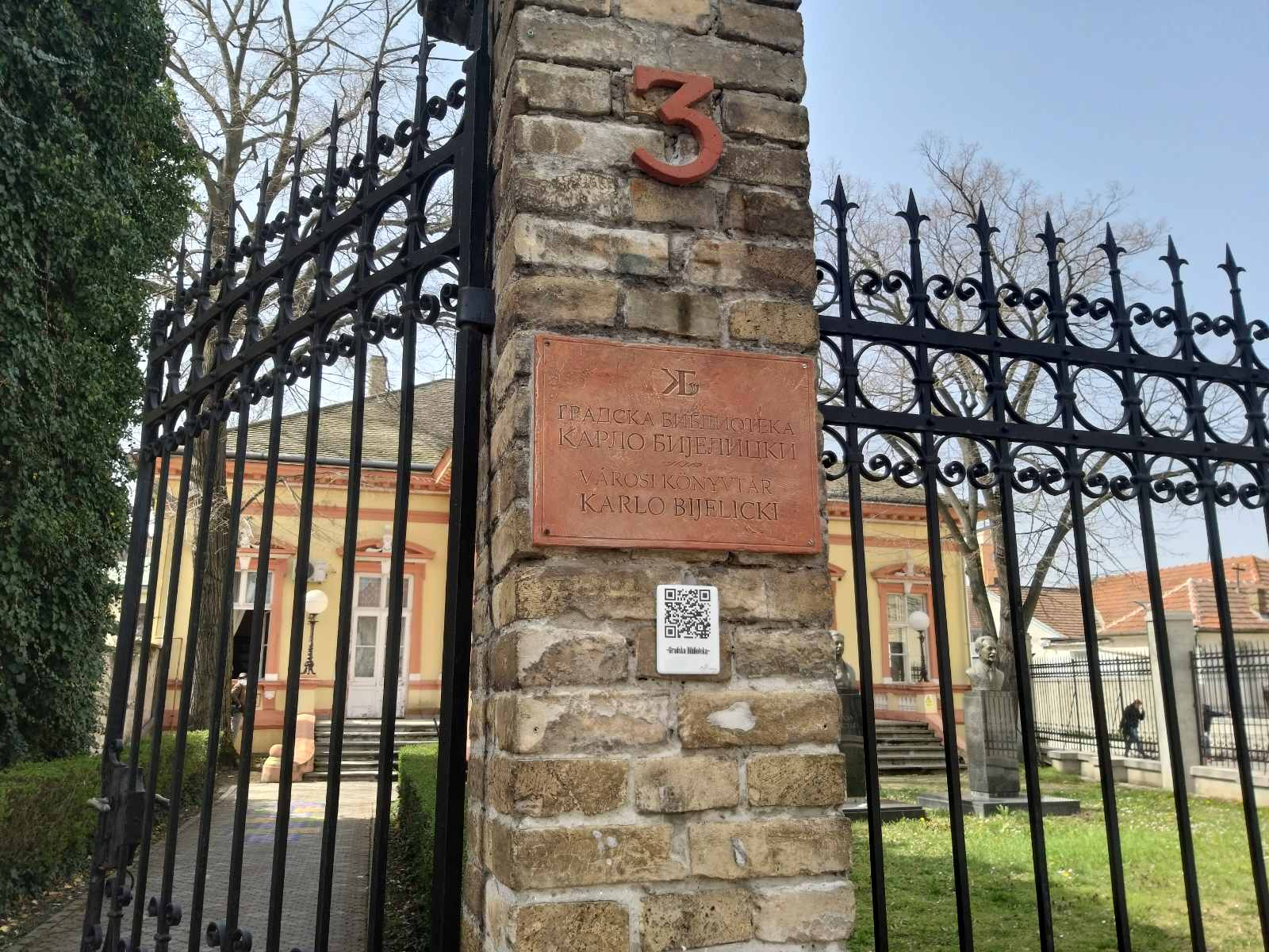 Dečje odeljenje21